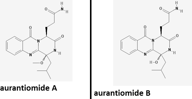 Aurantiomide A and B